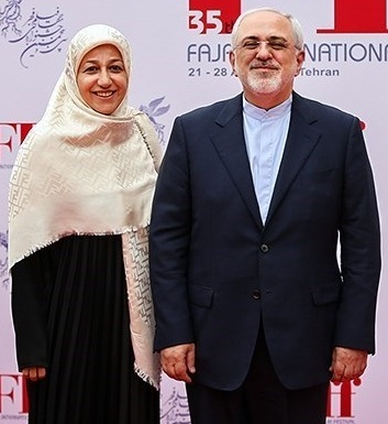 Iranian FM Mohammad Javad Zarif and his spouse, Maryam Imanieh at 35th Fajr International Film Festival closing ceremony